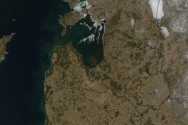 Latvia from space. Red dots mark the locations of fires burning in countries south and east of the Baltic Sea.